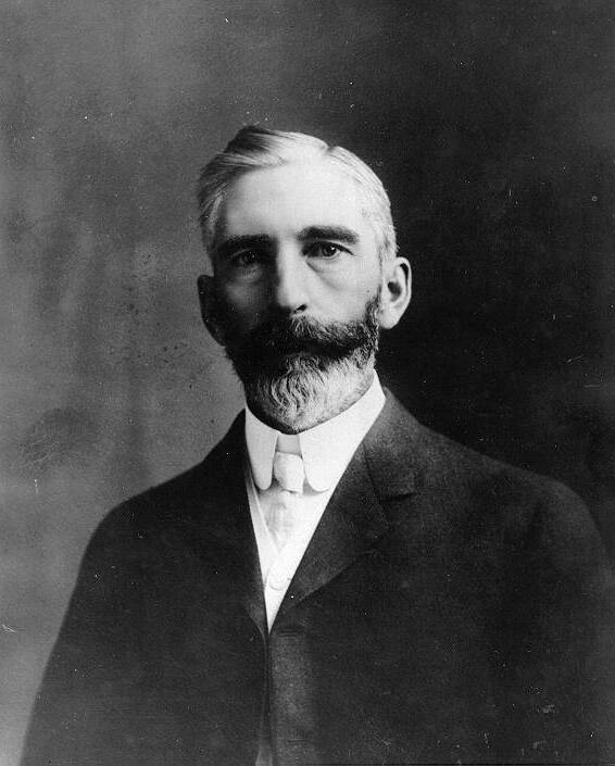 Photograph of Bryant B. Brooks, Wyoming State Archives. This photo was taken circa 1905. It has been converted to JPEG by User:MarkGallagher.